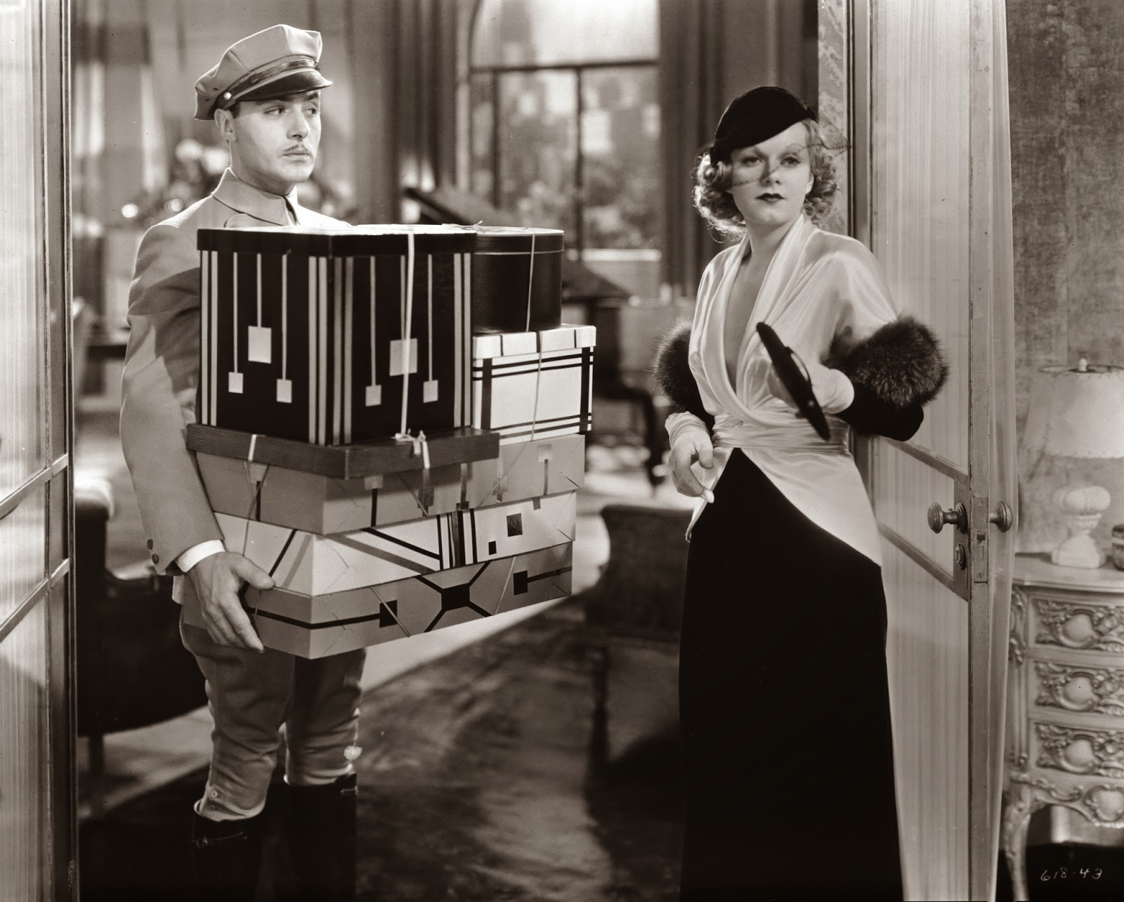 Promotional Photo of Jean Harlow in Red-Headed (1932)